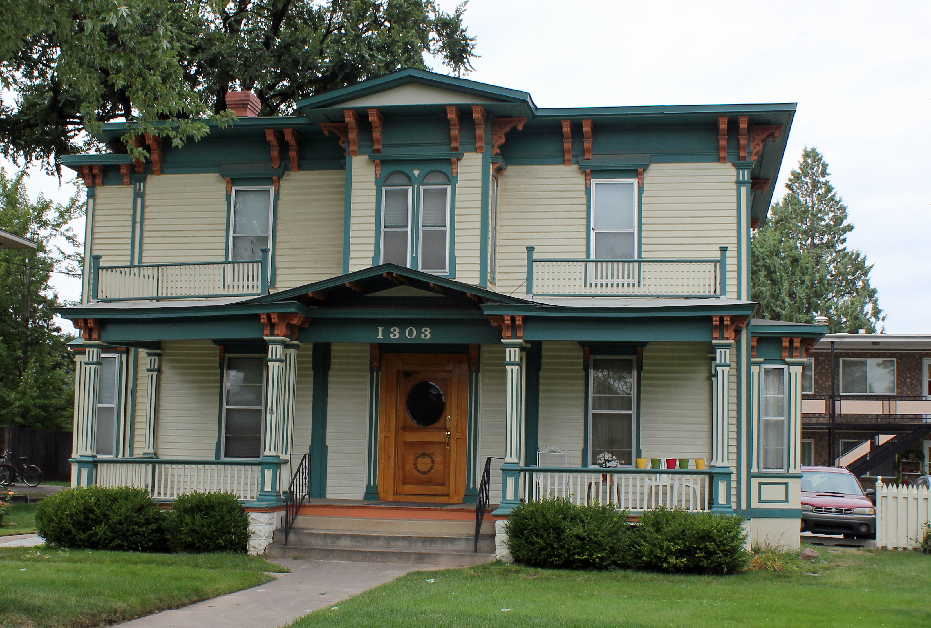 The Nettleton-Mead House, located at 1303 9th Avenue in Greeley, Colorado. The property is listed on the National Register of Historic Places.